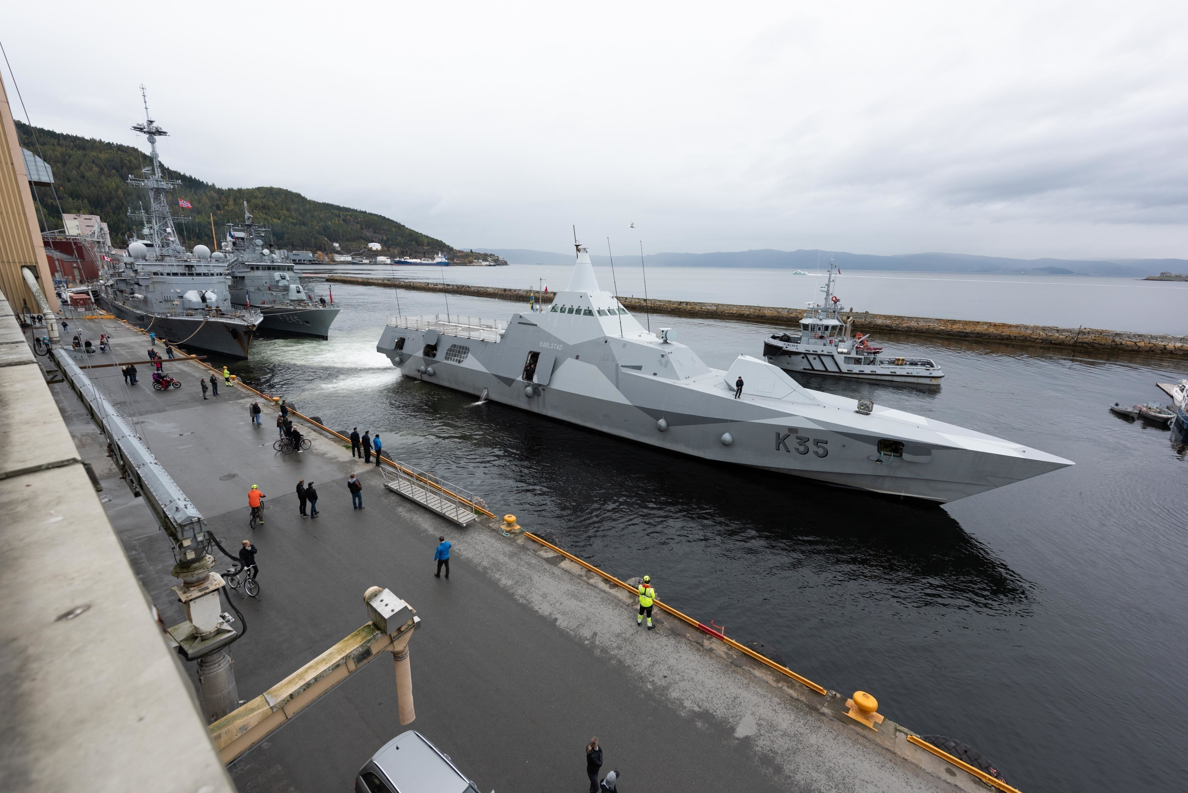 HSwMS Karlstad comes alongside in Trondheim prior participating in Exercise trident juncture 18. Trident Juncture 18 is designed to ensure that NATO forces are trained, able to operate together and ready to respond to any threat from any direction. Trident Juncture 18 takes place in Norway and the surrounding areas of the North Atlantic and the Baltic Sea, including Iceland and the airspace of Finland and Sweden.